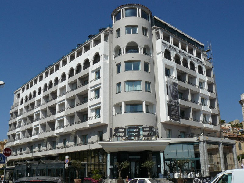 The 1835 White Palm Hotel in Cannes